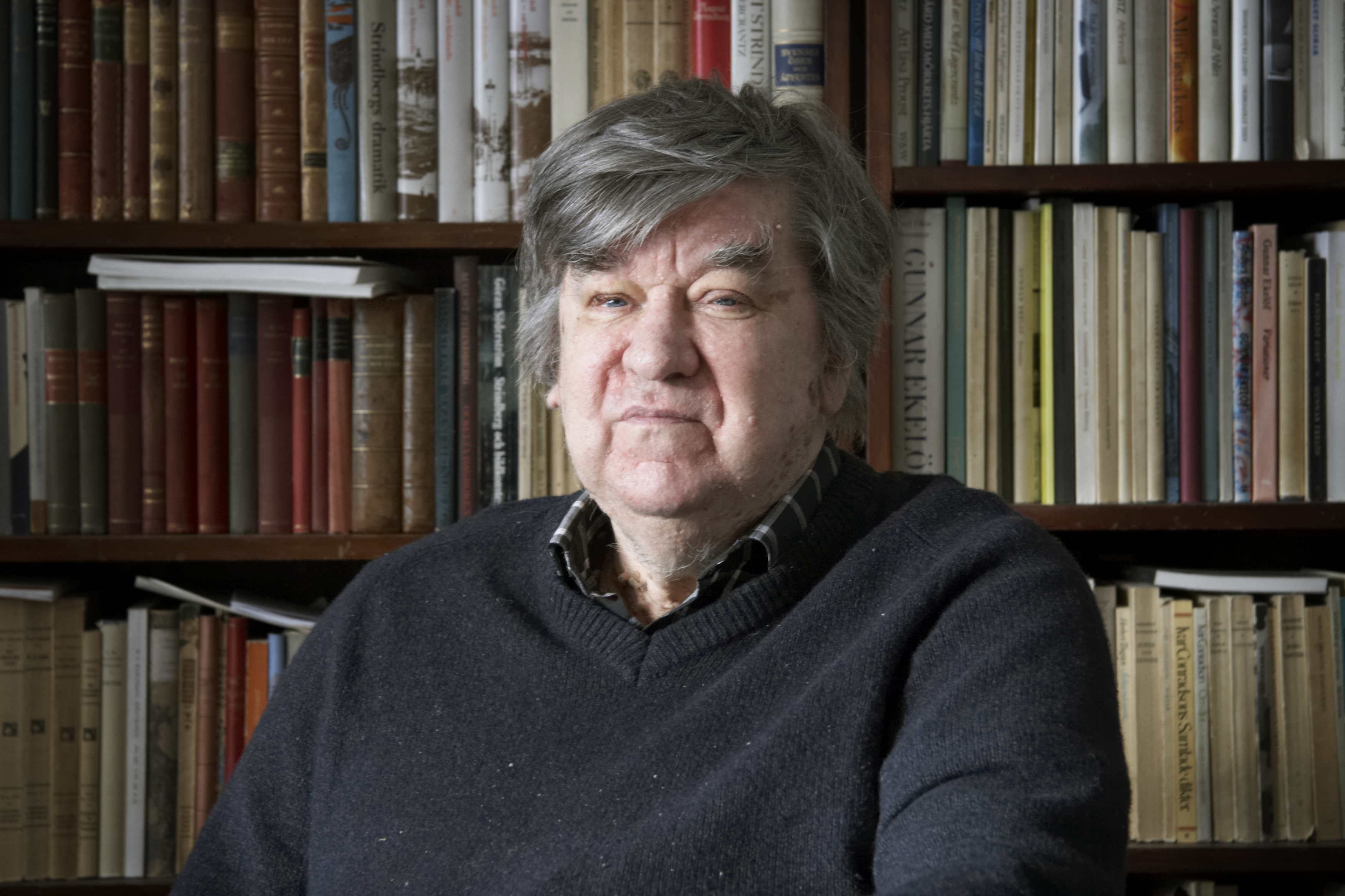 Torsten Ekbom, Swedish author